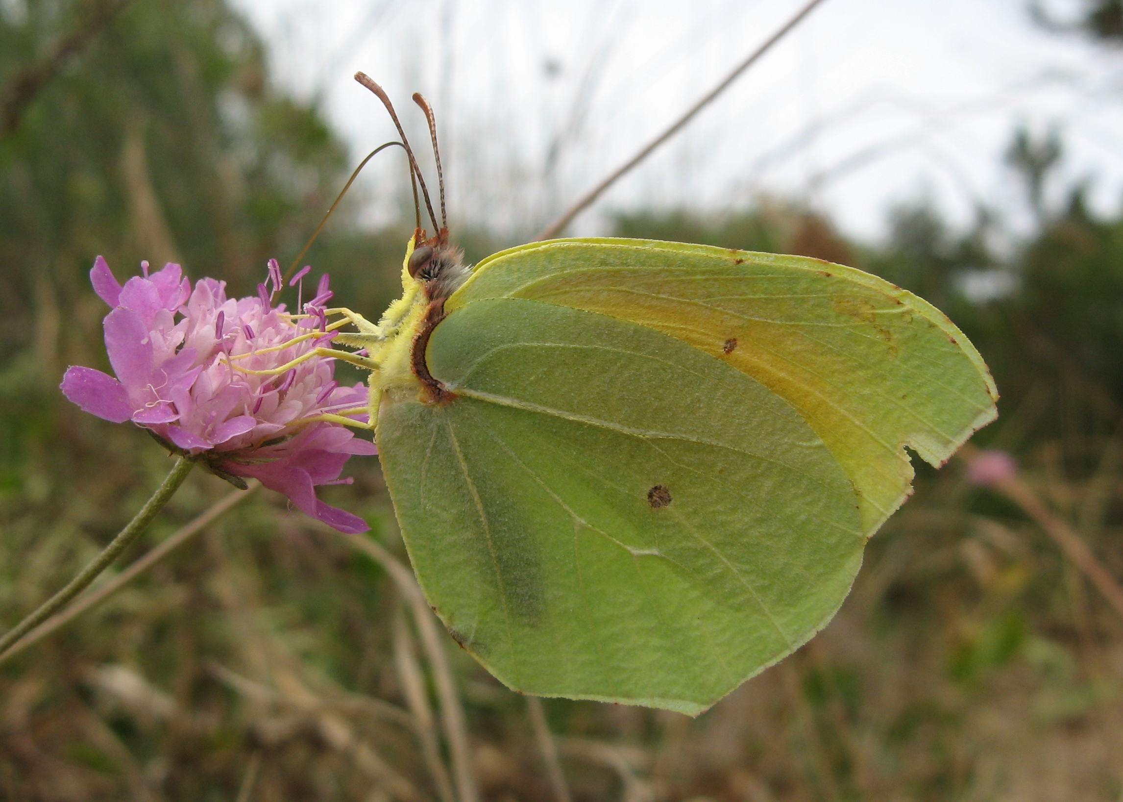 Cleopatra butterfly, male, in Menorca July 2009